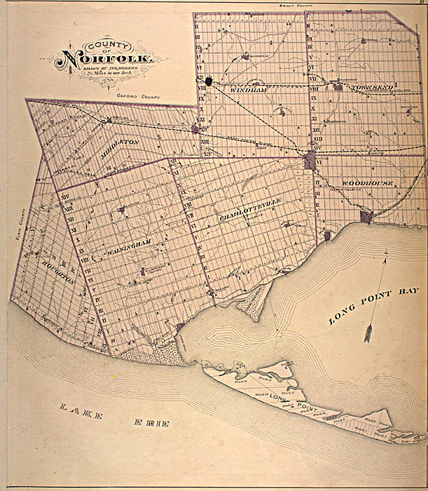 This map is originally from the book: Illustrated historical atlas of the county of Norfolk, Ont. Toronto : H.R. Page & Co., 1877. The map was scanned from this book as part of the McGill University Canadian County Atlas Digital Project. ( I downloaded this image of the map from their project website, specifically: In Canada, the copyright of a work lasts the life of the author plus 50 years from the end of the calendar year of death. If the author is anonymous or pseudonymous then the copyright lasts for either 50 years from the publication of the work or 75 years from the making of the work, whichever is shorter.